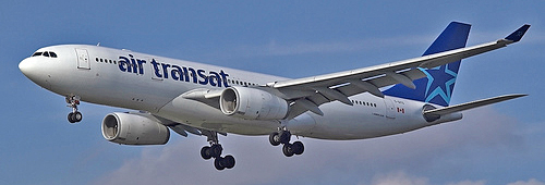 Air Transat Airbus A330-200 C-GITS in Frankfurt am Main.